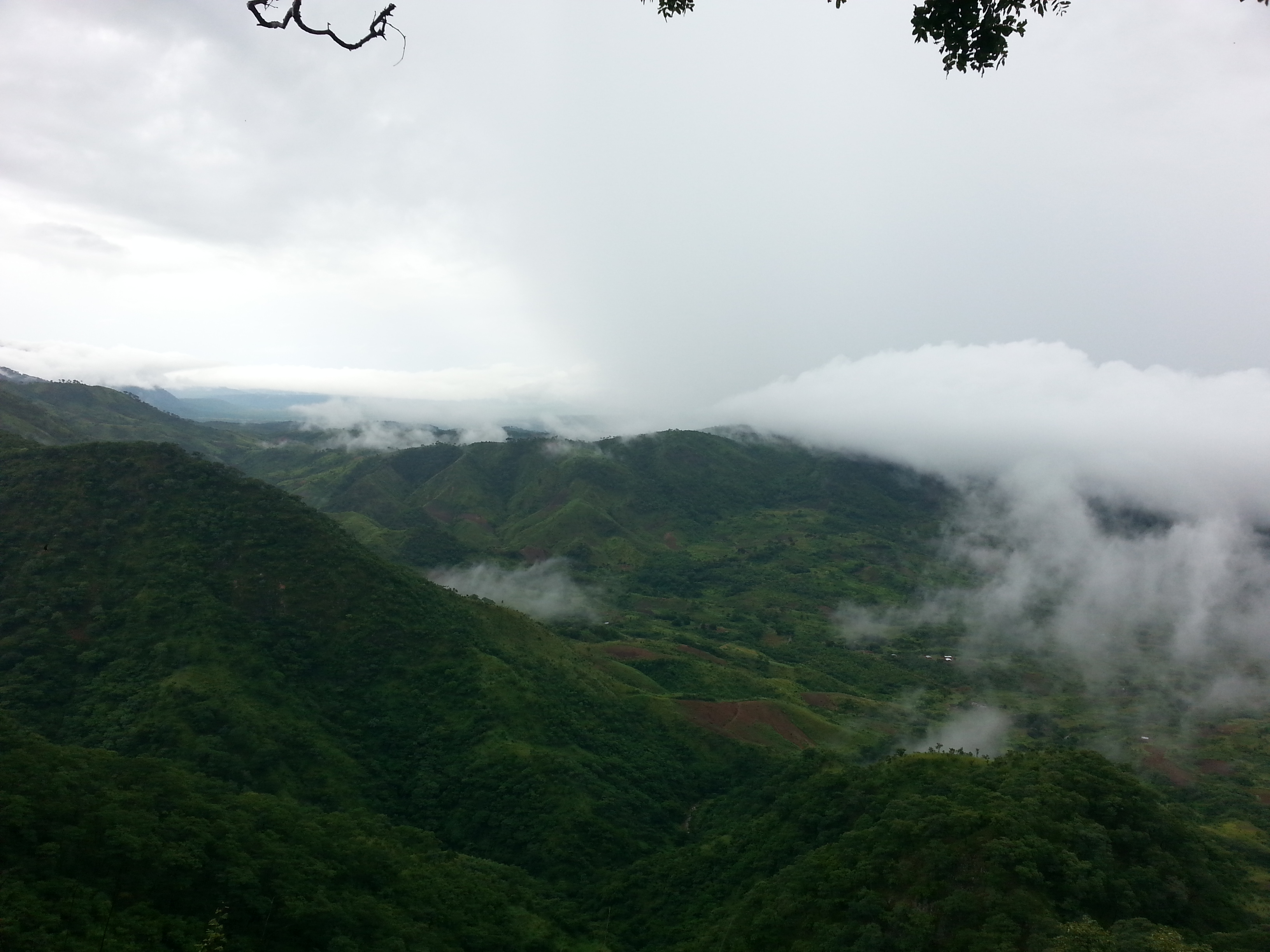 Mountains in Northern Malawi during rainy season, near Livingstona